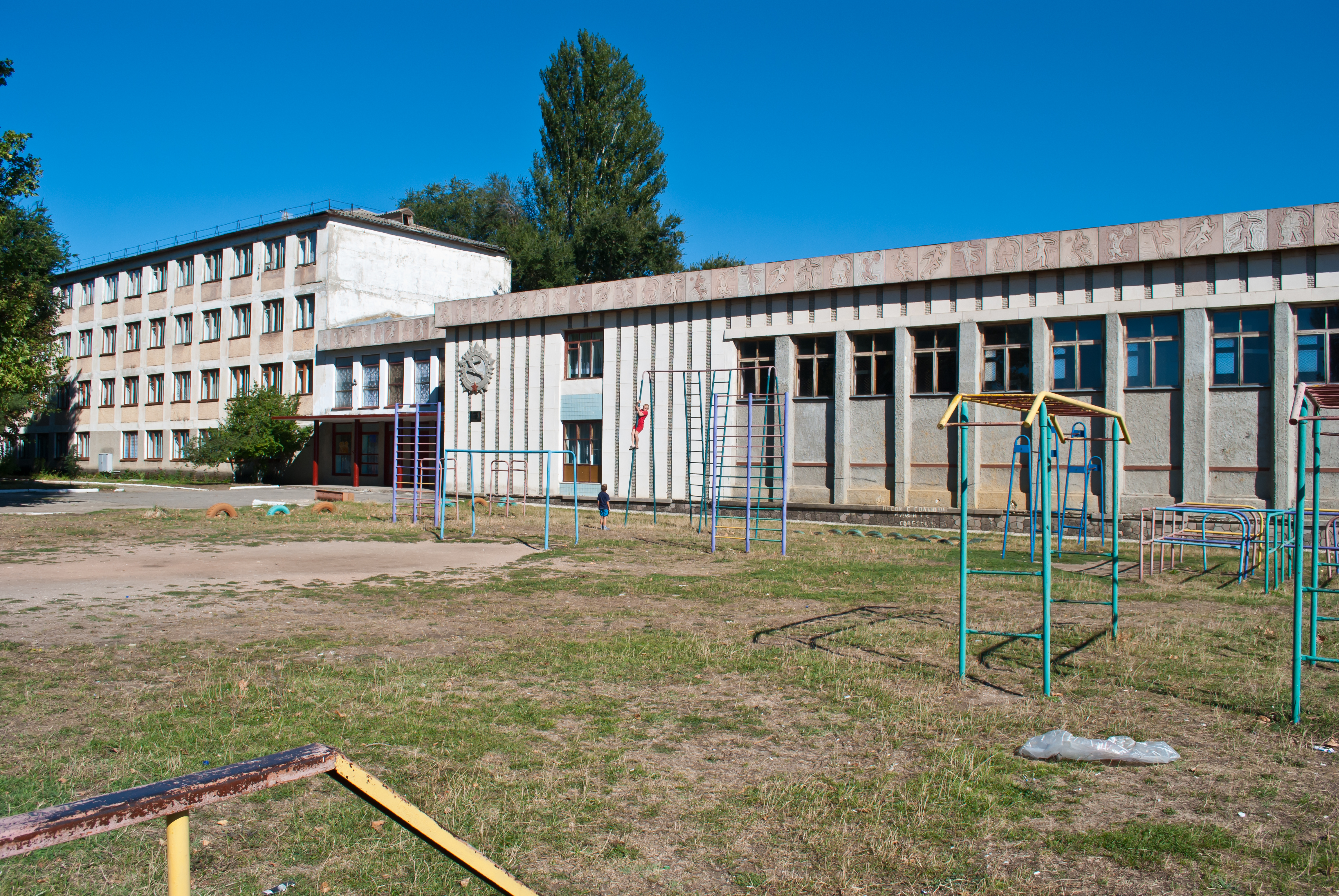 Secondary school in the village Konstantinovka (Simferopol Raion, Crimea).